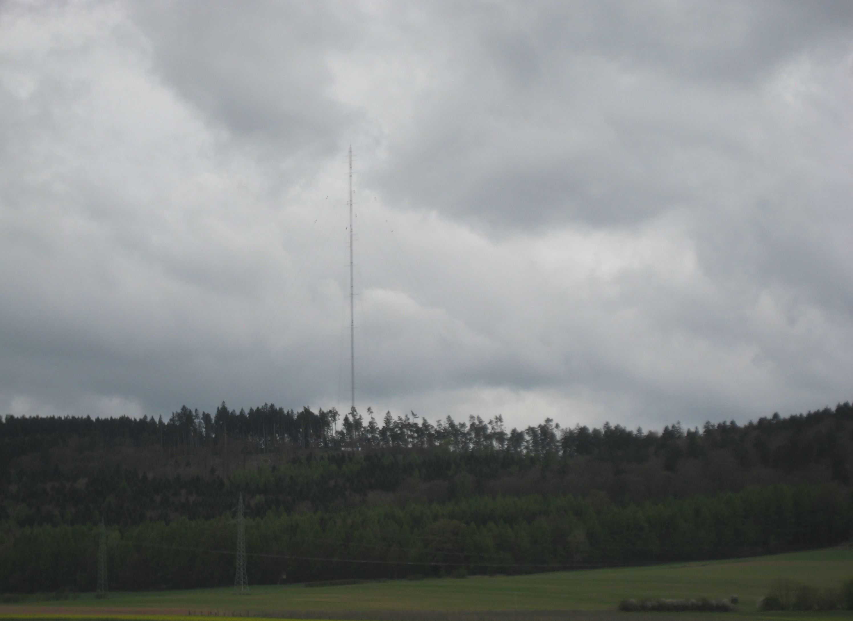 Rödeser Berg with a tower for measuring wind speeds in district Kassel, Hesse, Germany.